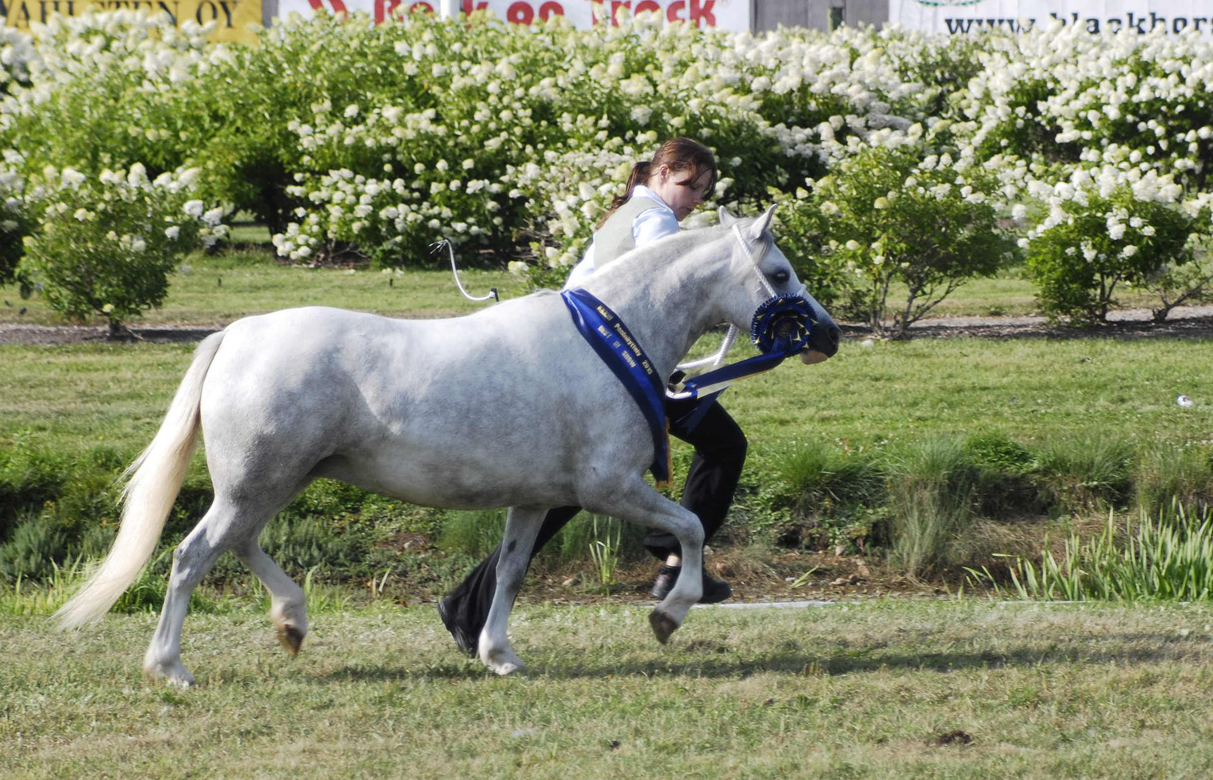 Best In Show of Vermo Pony Show 2010, Moondelight Marilyn, a grey 3-year-old mare, and her massive BIS rosette.